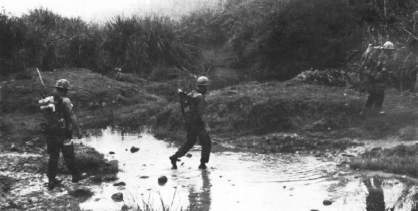 "Members of Company K, 3d Battalion, 3d Marines cross a stream on 19 March as the battalion conducted a seven-day search west of Cam Lo early in Operation Prairie III."